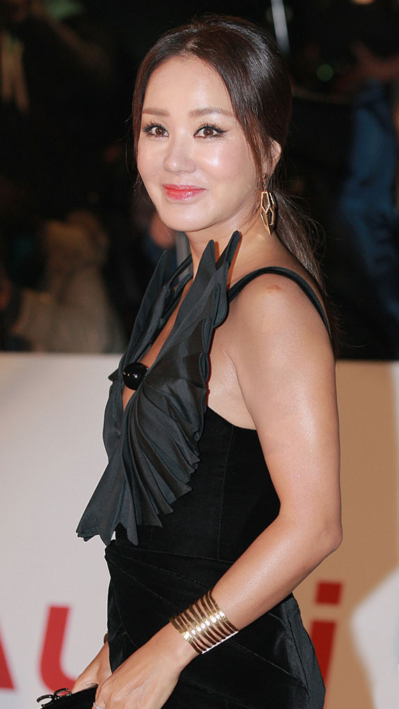 Uhm Jung-hwa in the 2013 Blue Dragon Film Awards.